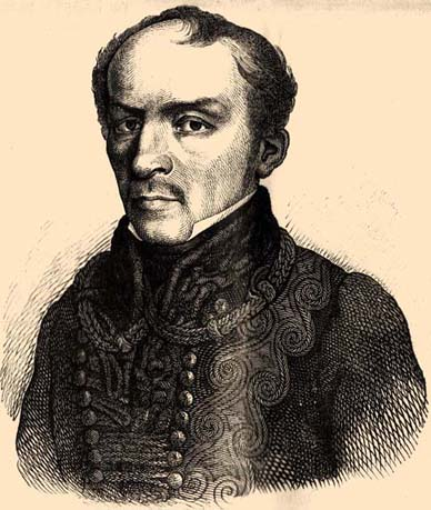 Pál Felsőbüki Nagy